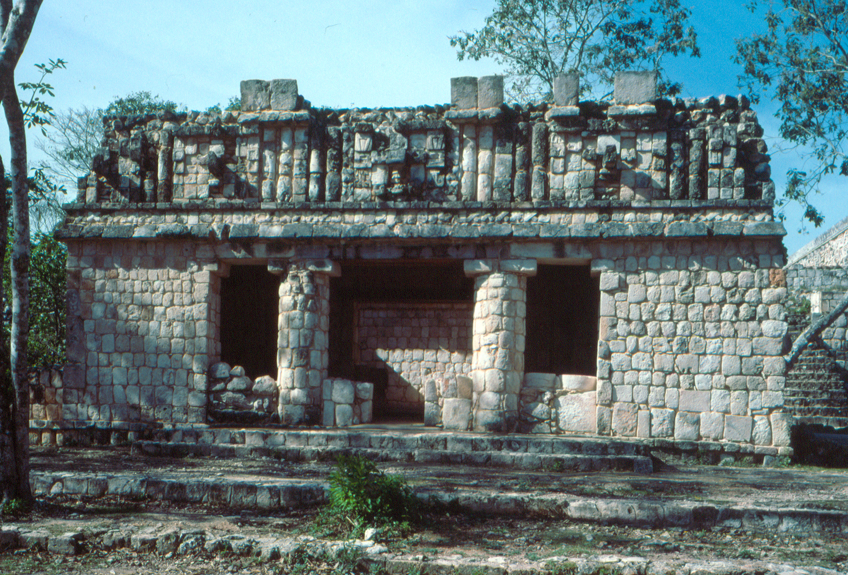 Uxmal,Yucatan, Mexico: completely reconstructed buzilding north/below governor's platform